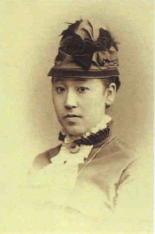 Tanaka Suma, wife of:Tanaka Fujimaro (田中 不二麿?, 16 October 1845 – 8 September 1909) was a statesman and educator in Meiji period Japan.